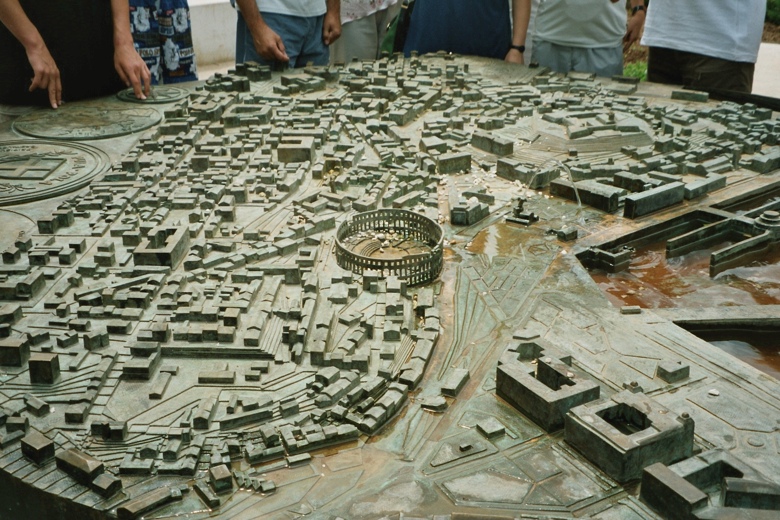 Bronze model of Pula (Istria)